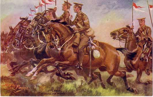 17th Lancers advancing. They wear the type of uniform they'd of worn in the early part of World War I. Postcard by Harry Payne (1858-1927).